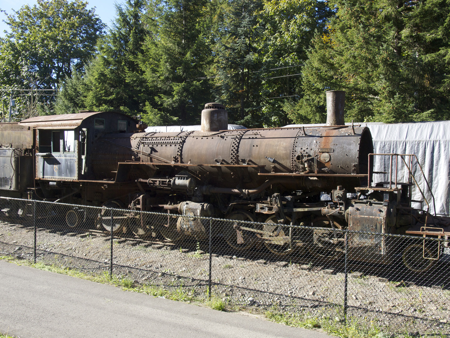 Part of the collection located at Railroad Ave SE, Snoqualmie, Washington, USA.